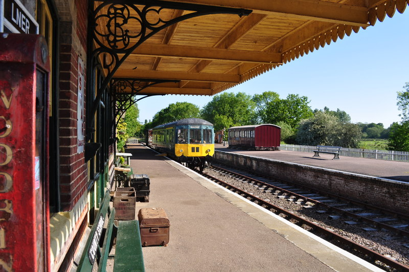 County School Railway Station, near to North Elmham, Norfolk, Great Britain. A view of the station from platform one, see also TF9822 : County School Railway Station